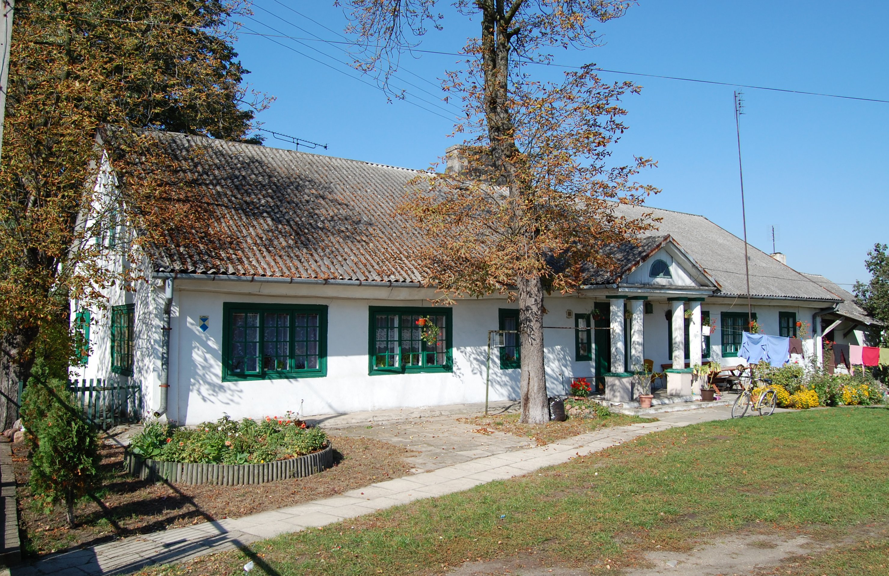 House in Żelechów, Poland. It was built in 1st half of 19th century.